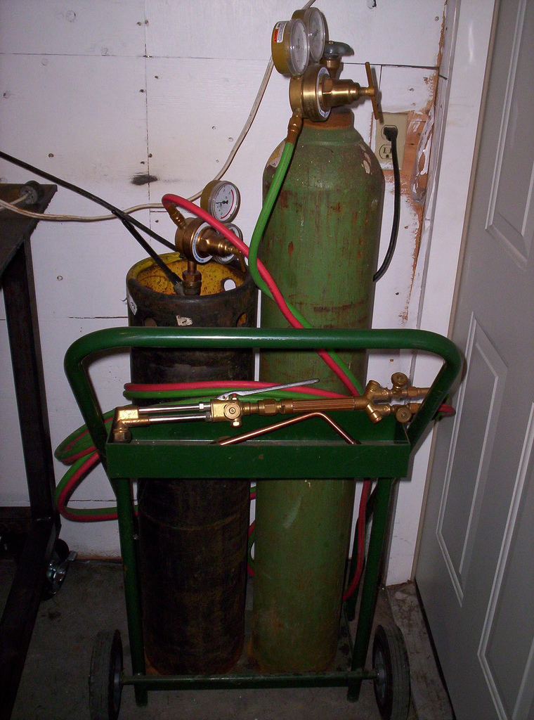 Oxy-acetylene torch outfit. The short bottle is acetylene, the tall green one is oxygen.